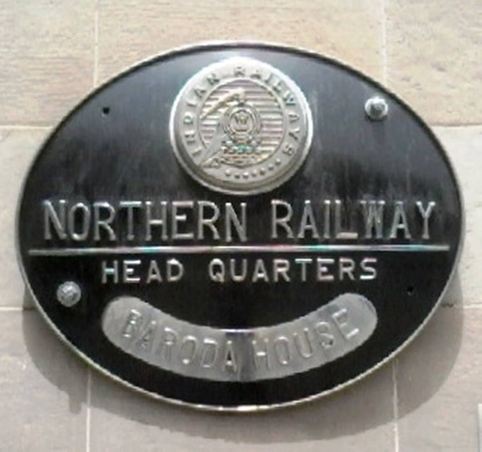 Northren Railway Head Quarters Baroda House Metal Logo